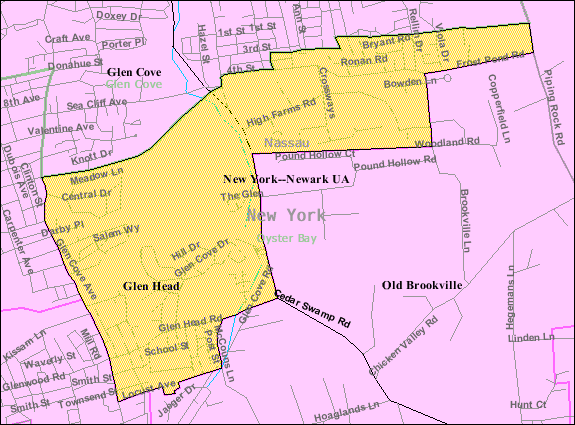 U.S. Census 2000 reference map for Glen Head, New York